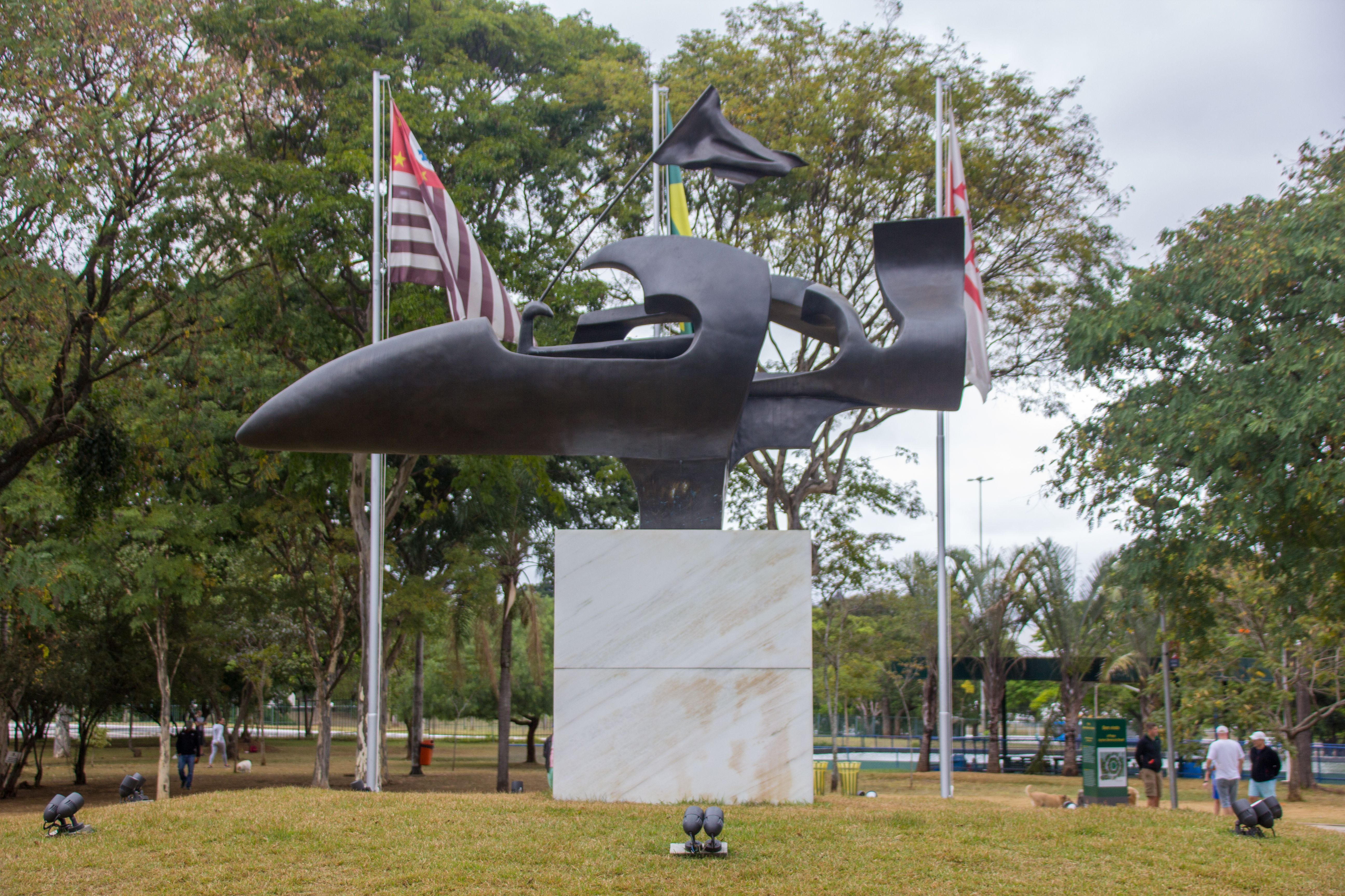 Monumento a Ayrton Senna, São Paulo, Brazil